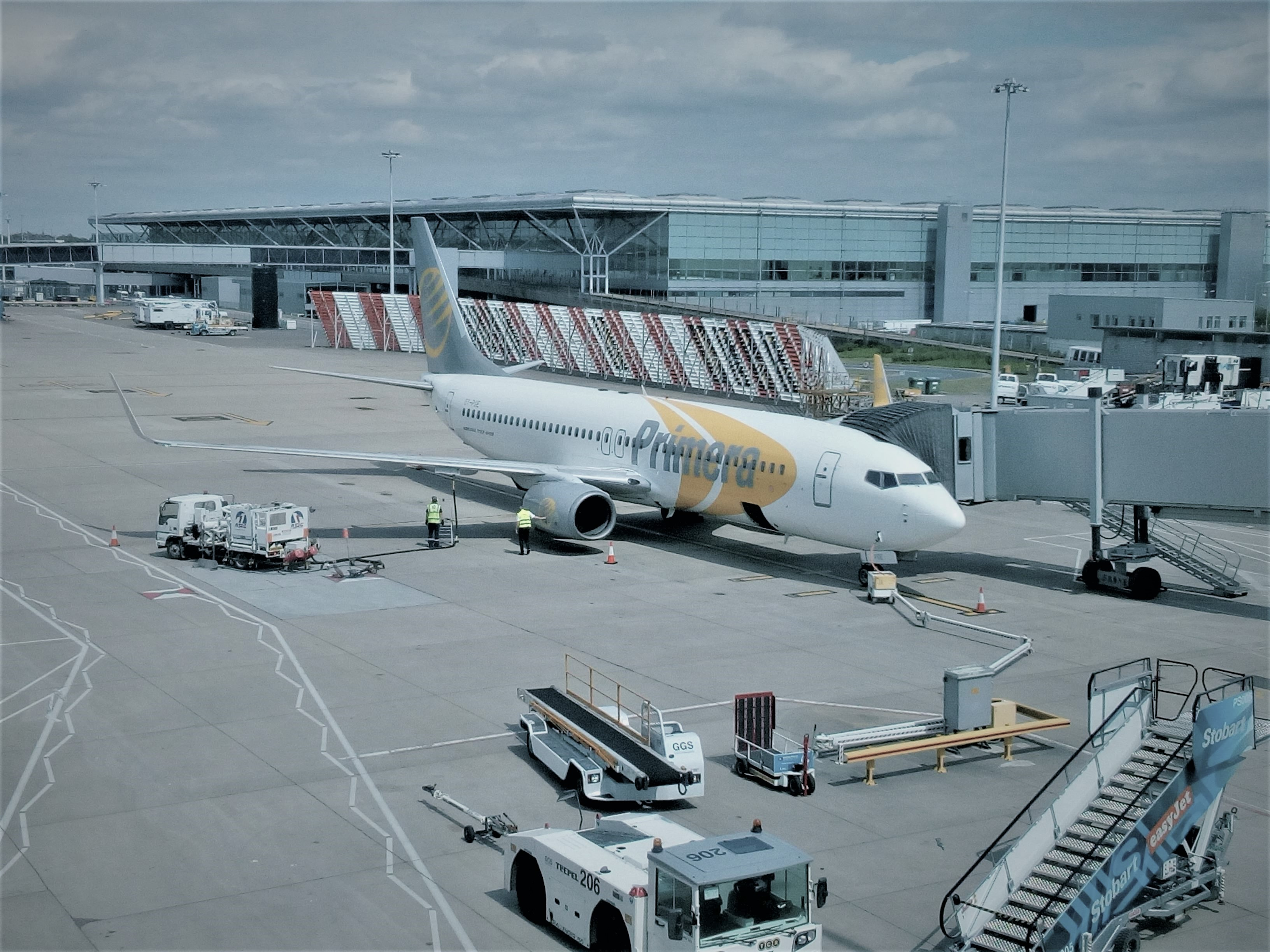 Boeing 737-800 from Primera Air at London Stansted Airport